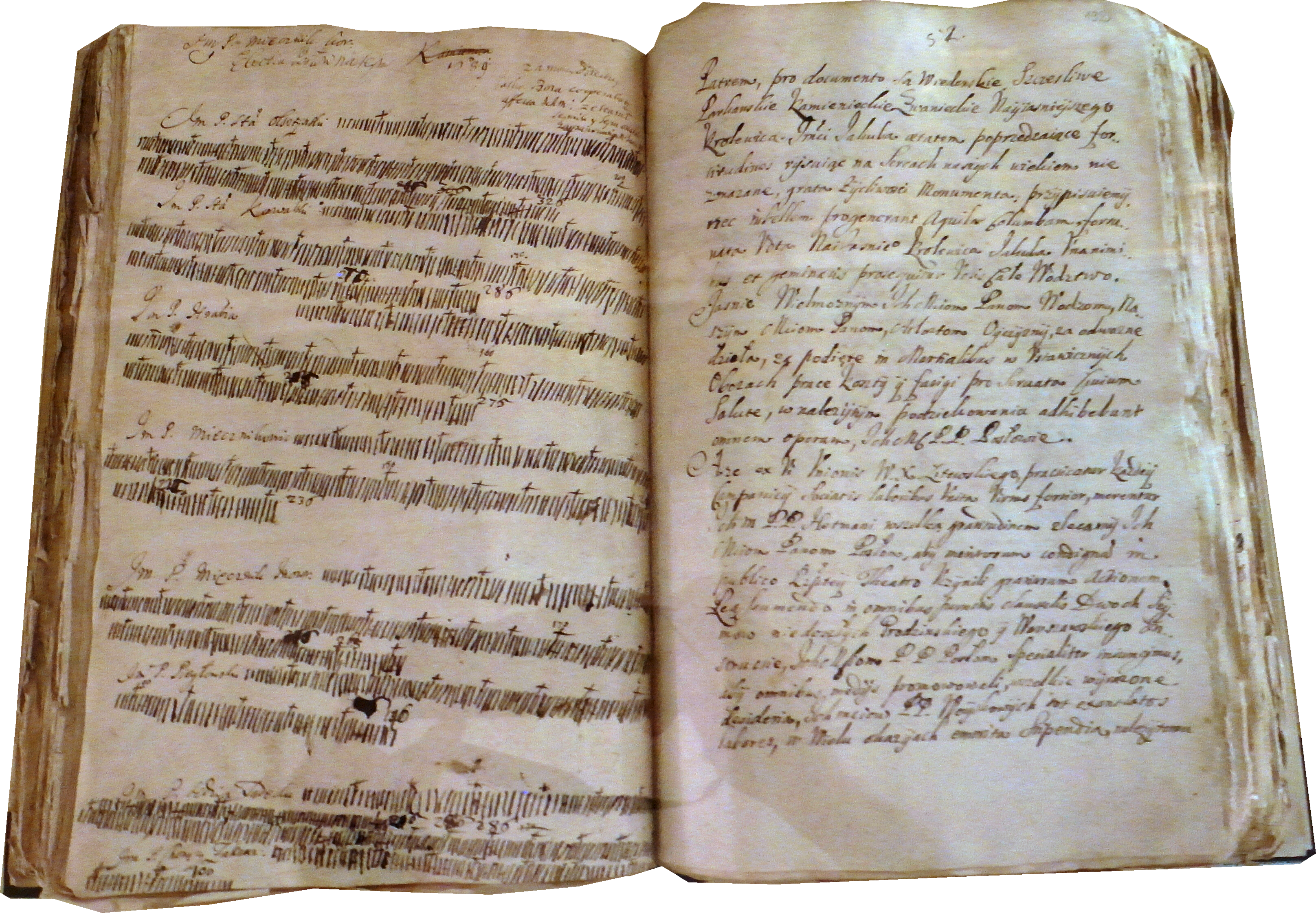 Record of the voting for pre-Sejm Sejmik's deputies in Proszowice, December 5, 1689